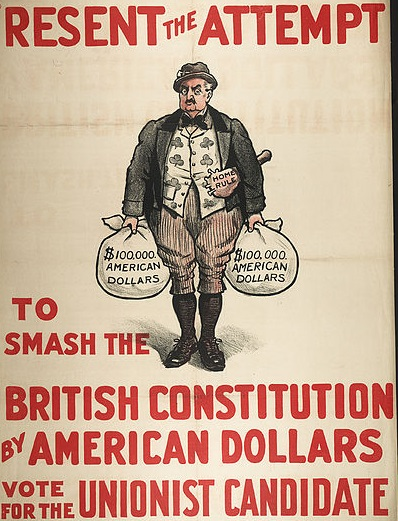 Lithograph in black and red ink on white paper showing a caricature of John Redmond armed with a club called "Home Rule" with a large money bag containing US dollars in each hand, produced for the Unionist Party in December 1910. Artist: Unknown Printer: Dobson, Molle and Co Ltd Publisher: Printer Place of Production: London Date: c1905-c1910 Persistent URL: misc 0519/71')